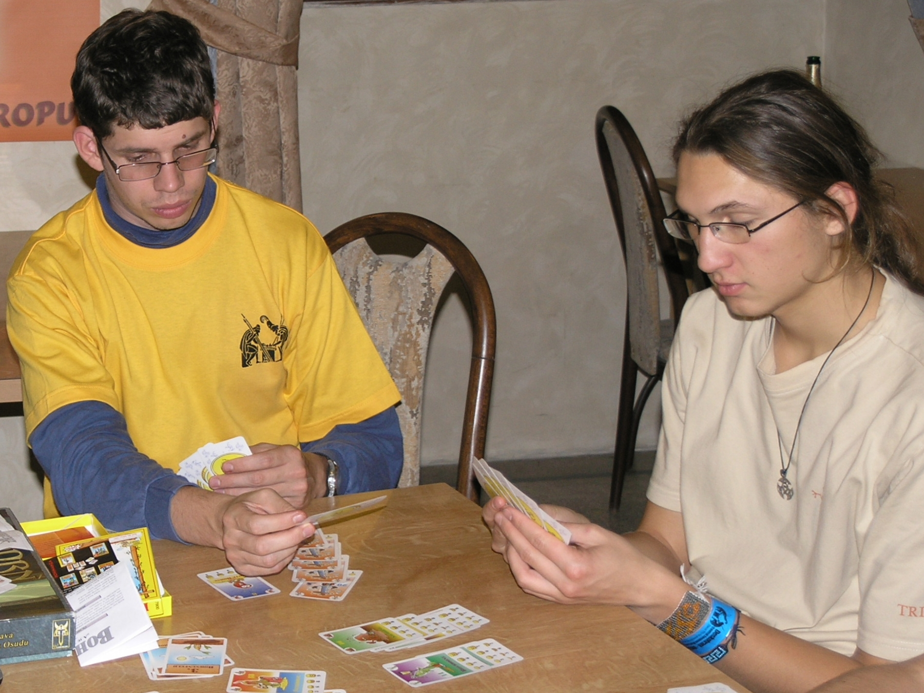 Two players playing a game of Bohnanza